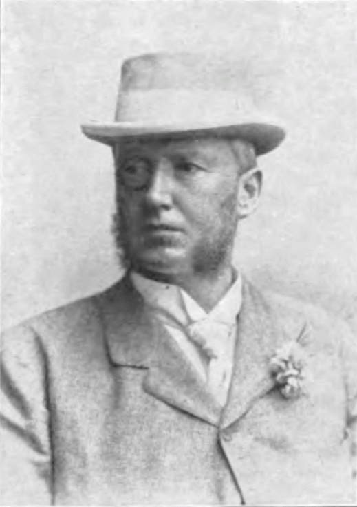 Count Thun, Austrian Premier